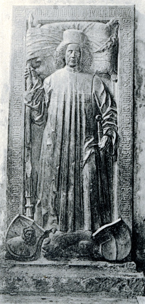 Postcard (Detail). Gravestone of Johann Siebenhirter in the monestry of Millstatt / district Spittal an der Drau in Carinthia / Austria / EU.